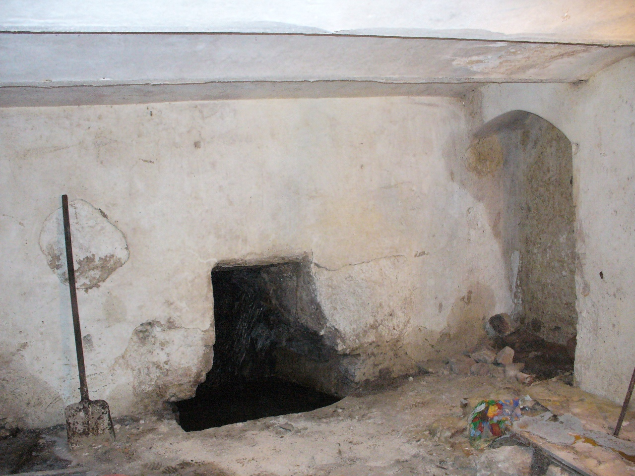 Mikveh in house No 157 in the village of Rokytnice v Orlických horách, Rychnov nad Kněžnou District, Czech Republic